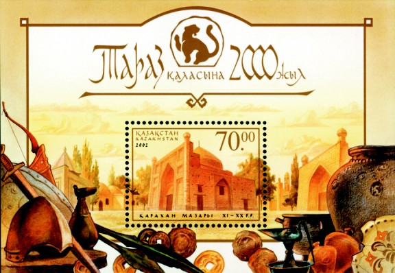 Stamp of Kazakhstan